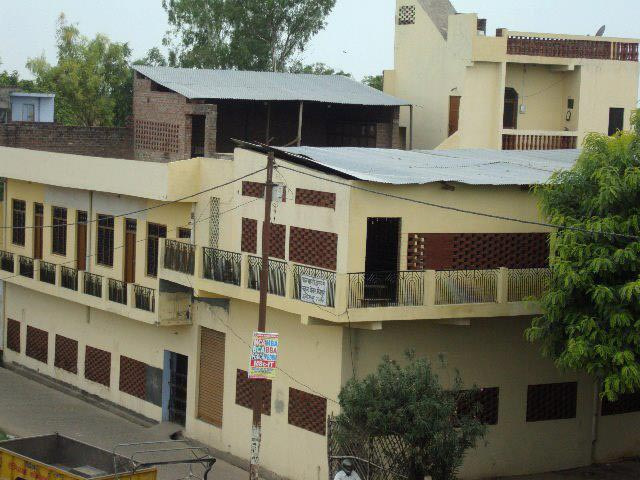 A scene of bal bharati